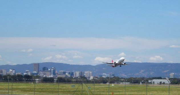 Adelaide Airport